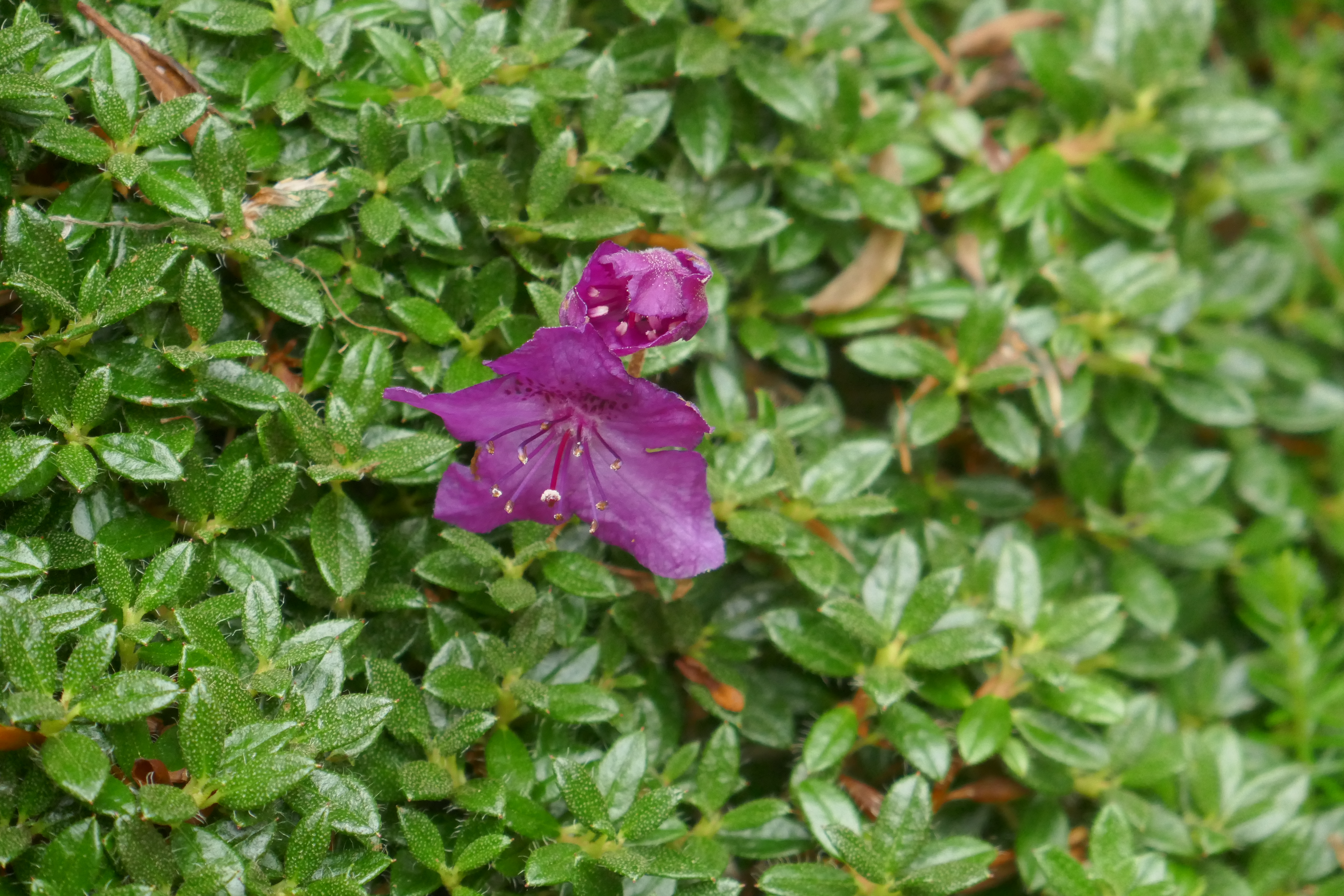 Rhododendron kelticum in flower in North Wales. Original Plant from Bodnant Nurseries